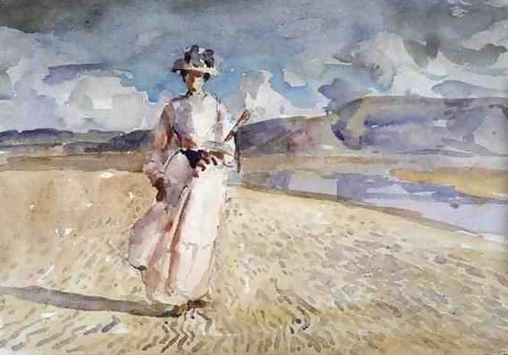 Walking on Sand